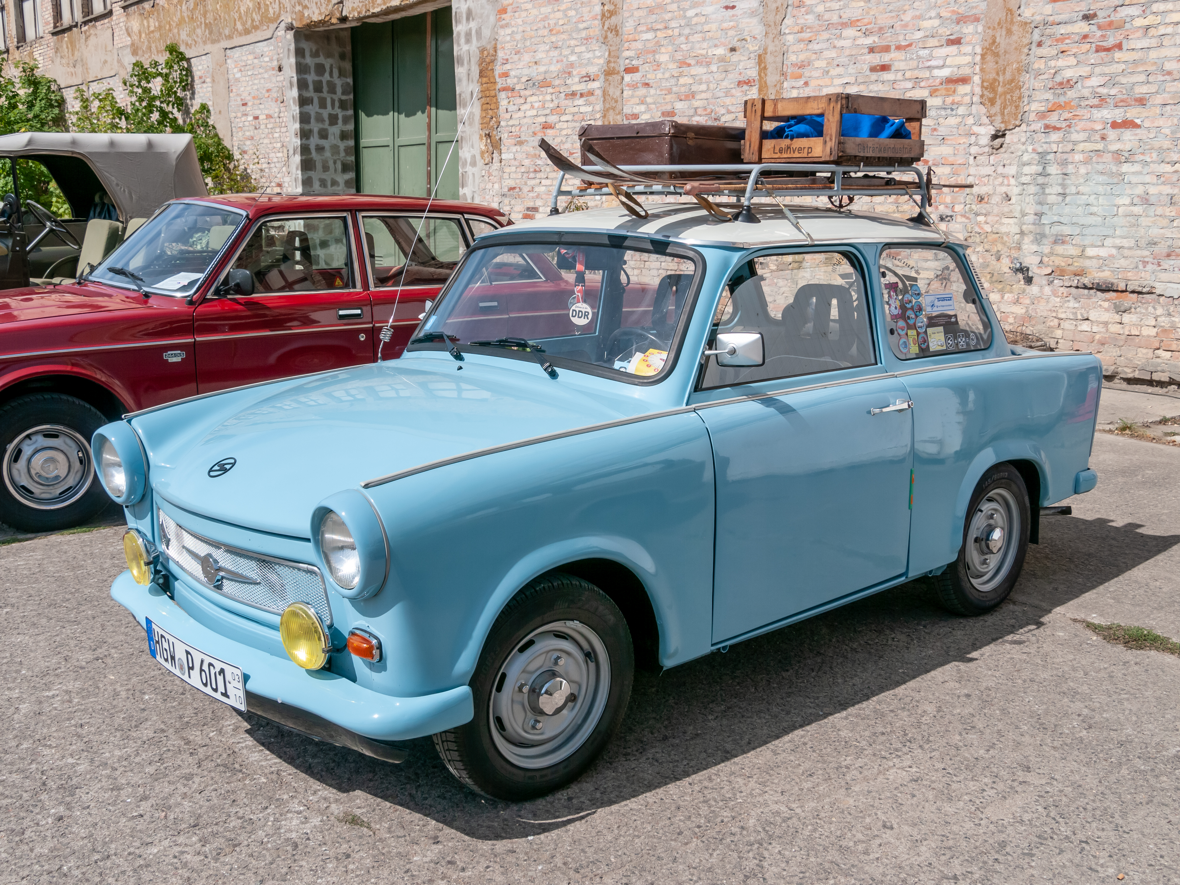 Trabant 601 at 12. Internationales Maritimes-Fahrzeugtreffen